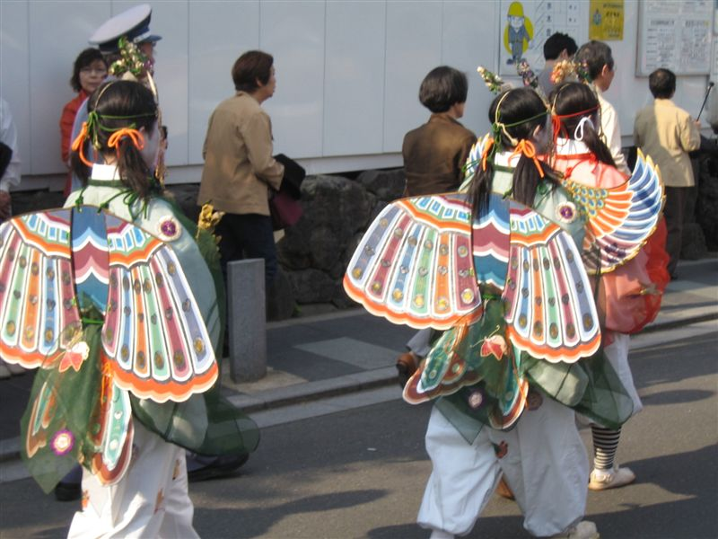 "Aoi Matsuri" parade, Japan.